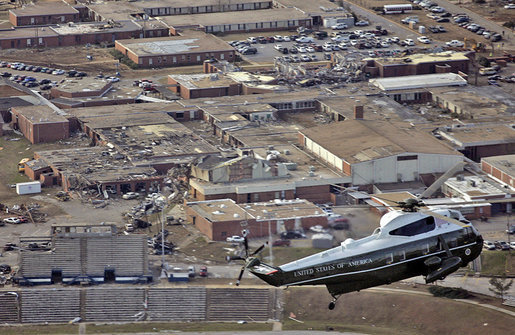 US President George W. Bush surveys tornado damage to Enterprise High School from Marine One in Enterprise, Alabama, Saturday, March 3, 2007. The President visited people affected by storms in Americus, Ga., and Enterprise, Ala. "We can never replace lives, and we can't heal hearts, except through prayer. And I know -- I want the students to know, and the families to know that there's a lot of people praying for them," said President Bush after walking through Enterprise High School. White House photo by Paul Morse